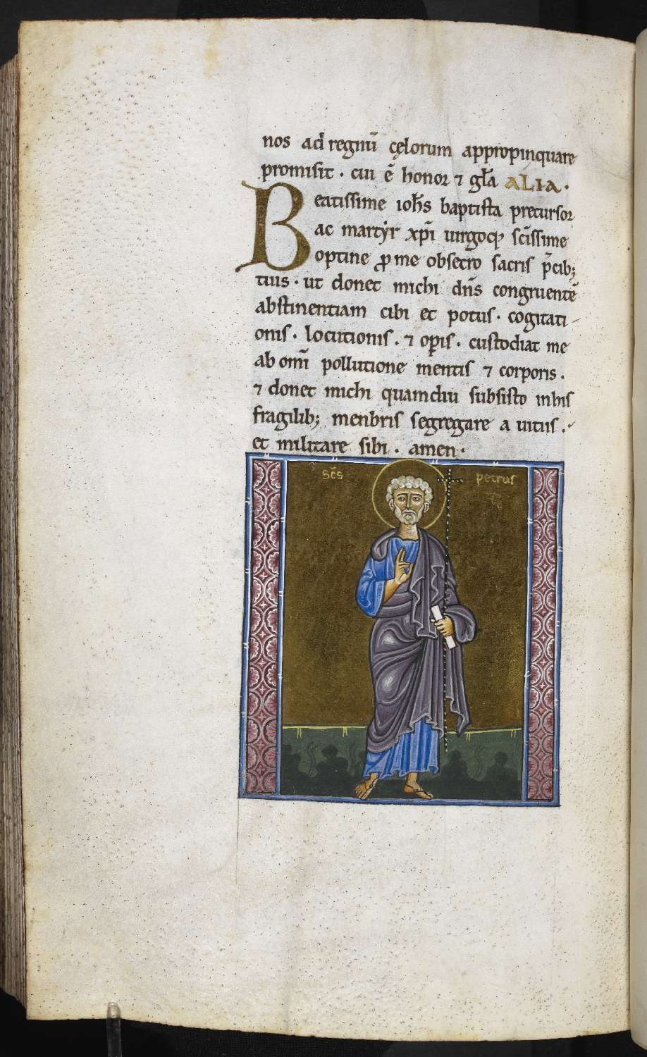 Melisende psalter, f206v, Saint Peter